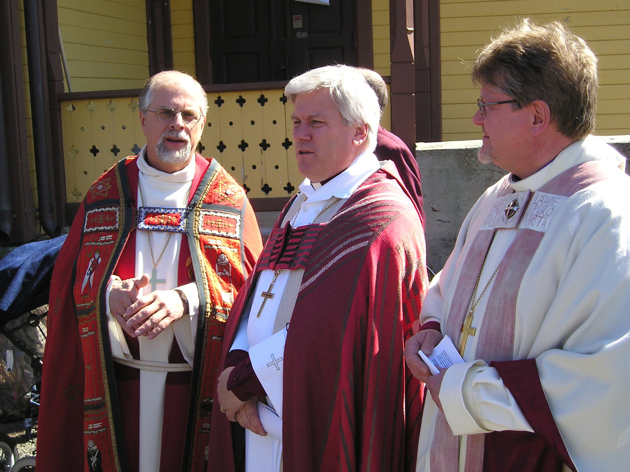 Per Oskar Kjølaas, the Bishop of the Diocese of Nord-Hålogaland, Norway, Hans Stiglund, the Bishop of the Diocese of Luleå, Sweden, and Samuel Salmi, the Bishop of the Diocese of Oulu, Finland